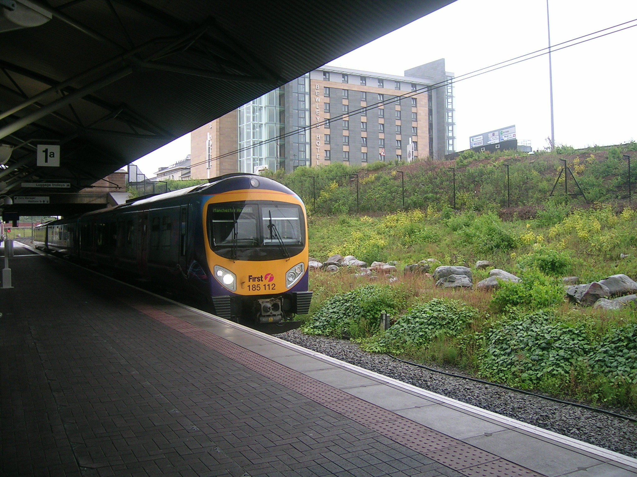 First Trains at Manchester Airport railway station